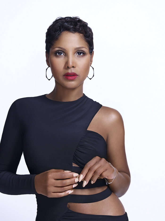 Toni Braxton press photo from 2015.